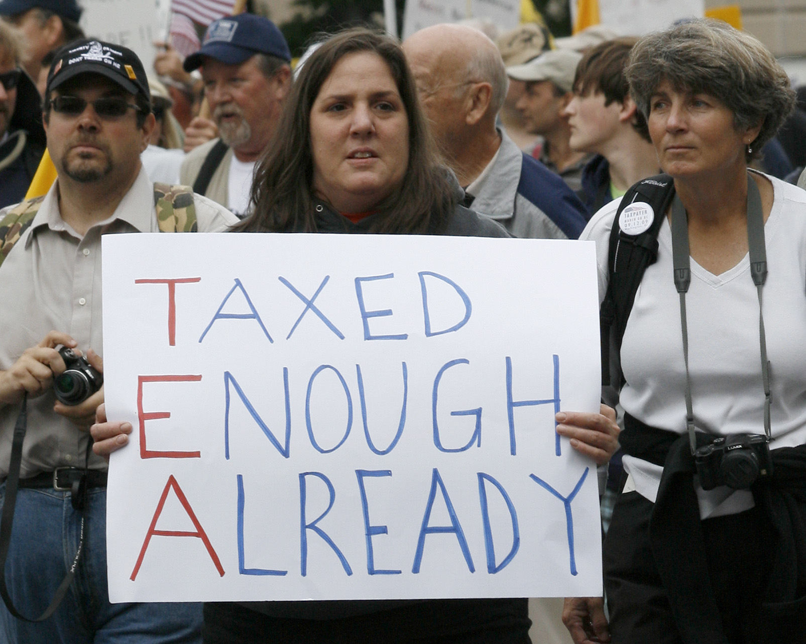 Tea Party protest sign during the Taxpayer March on Washington.